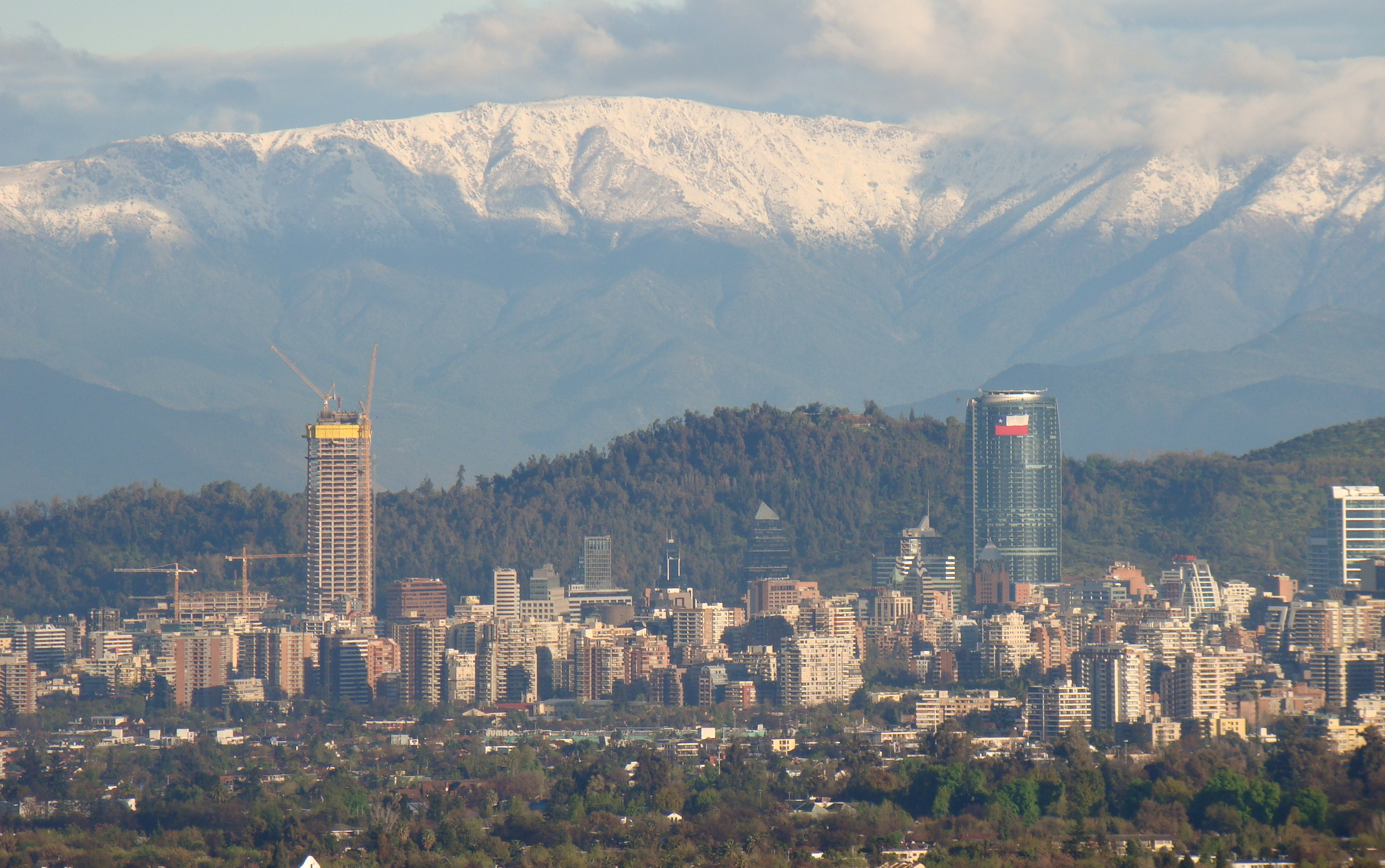 Skyline of Santiagos's Sanhattan commercial district